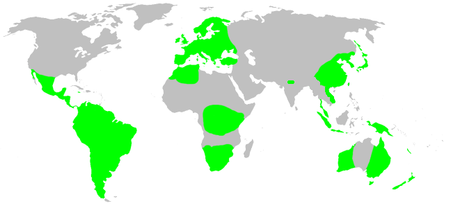 Anapidae habitat distribution, drawn after Platnick: World Spider Catalog 7.0. This is not a precise rendering of the distribution! If you have better information, please replace this map, or send me the info, and I will redraw it. Sarefo Map has been updated now that Anapidae includes the former Micropholcommatidae.